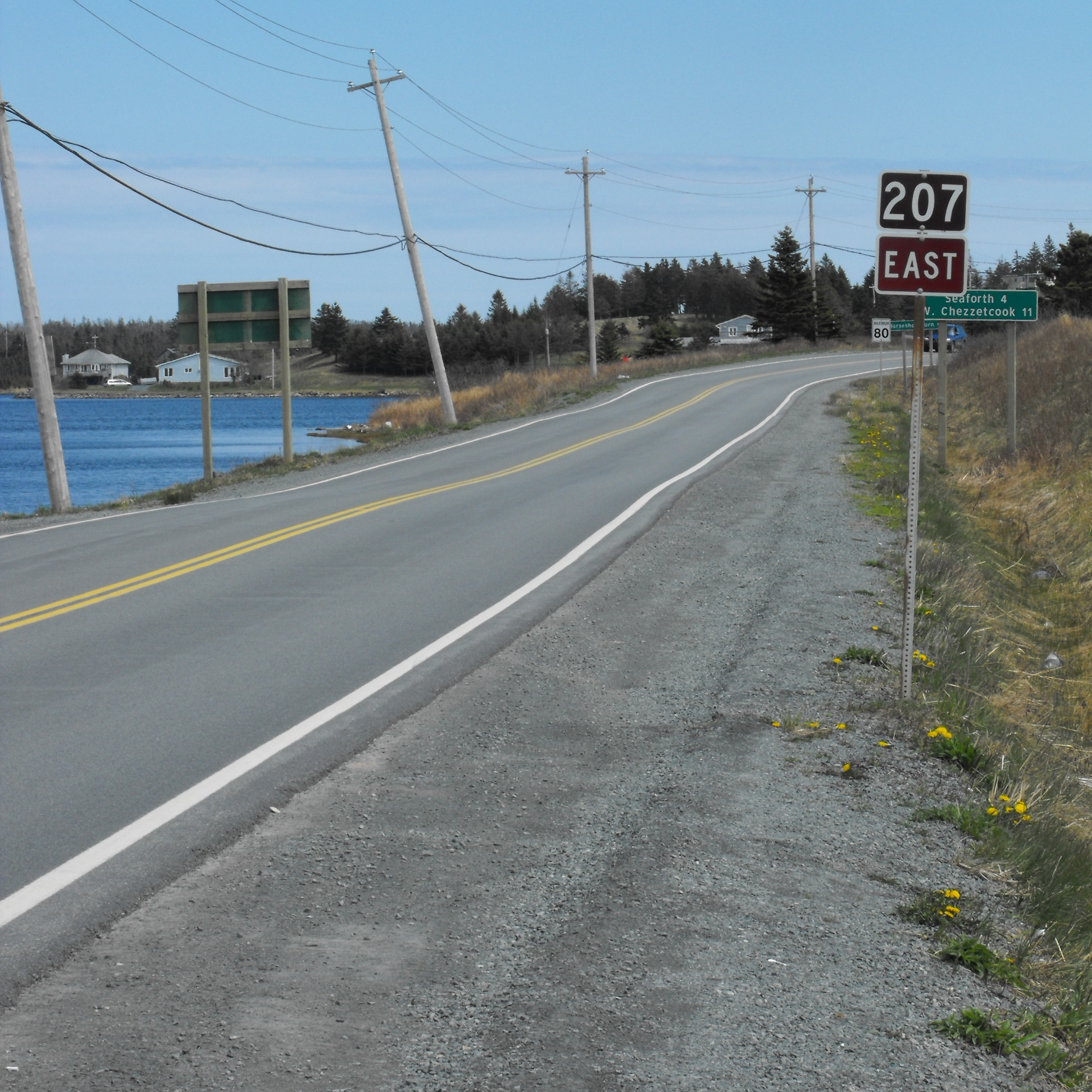 Roadside, Nova Scotia Route 207, Halifax Regional Municipality